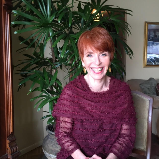 Photo of Helene Lerner